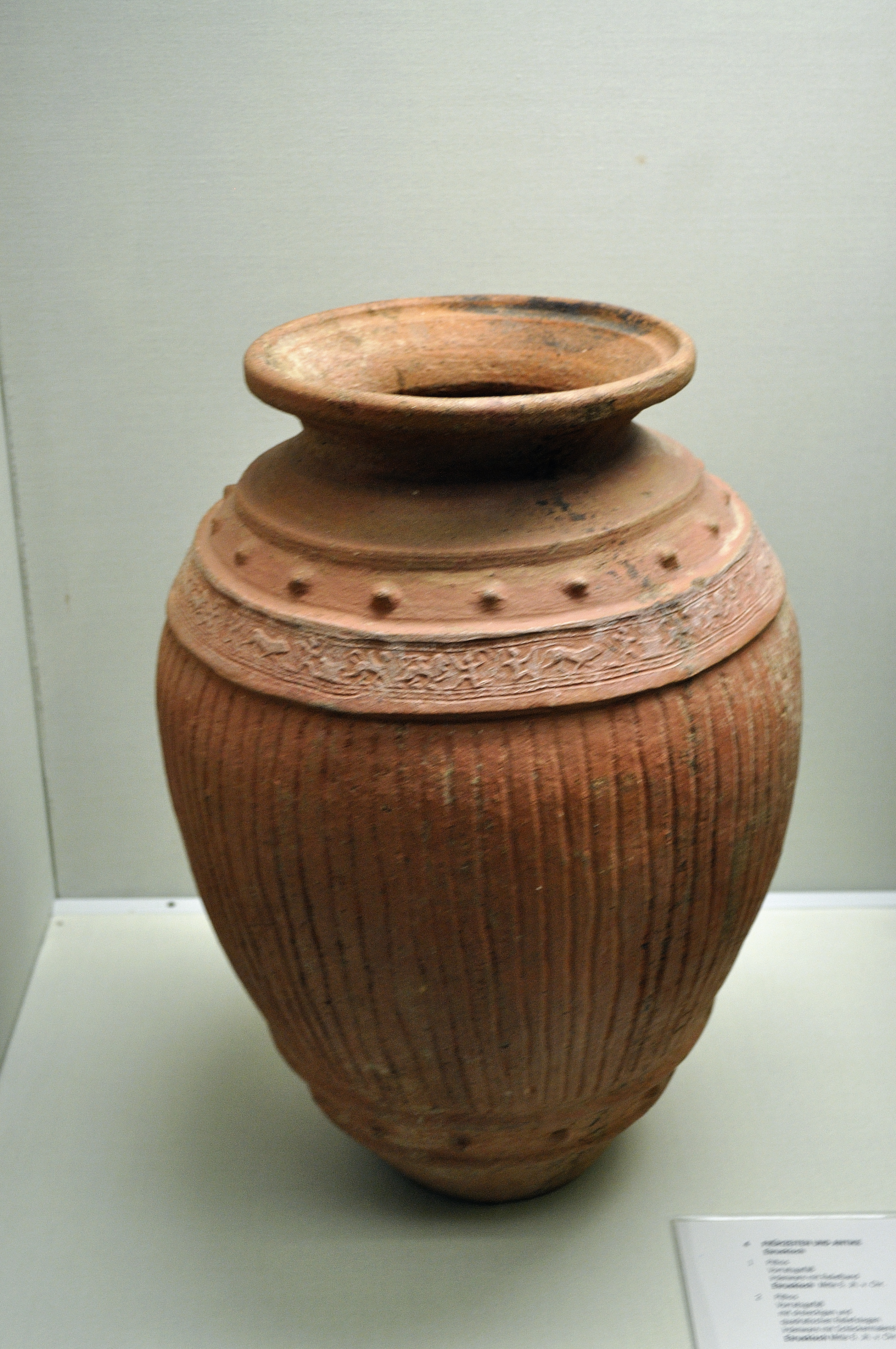 Picture taken in Hetjens-Museum Düsseldorf before Duisburg summer meetup 2010.